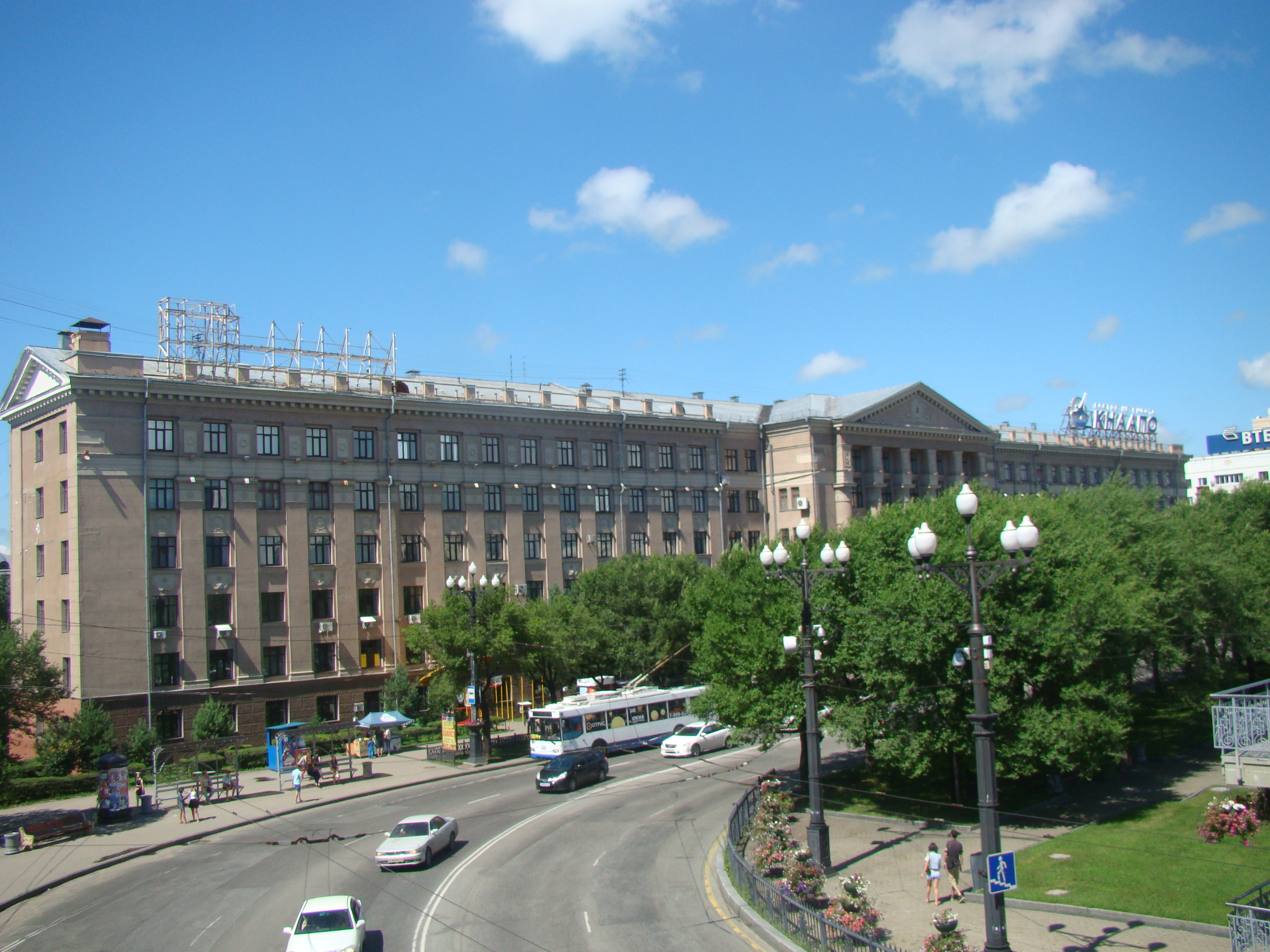 Far Eastern State Medical University